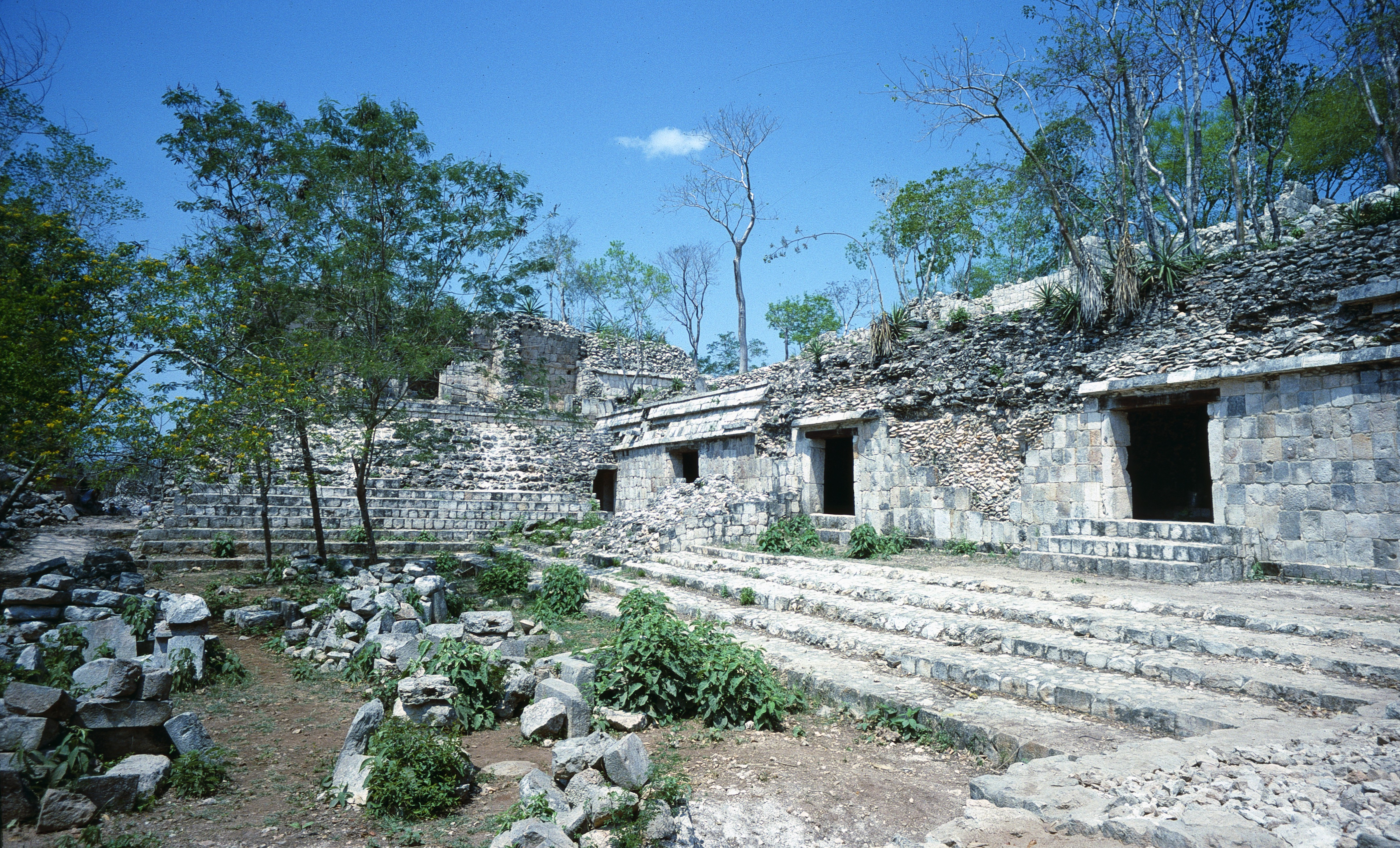 Xkipche, Yucatan, Mexico: East wing of Palace